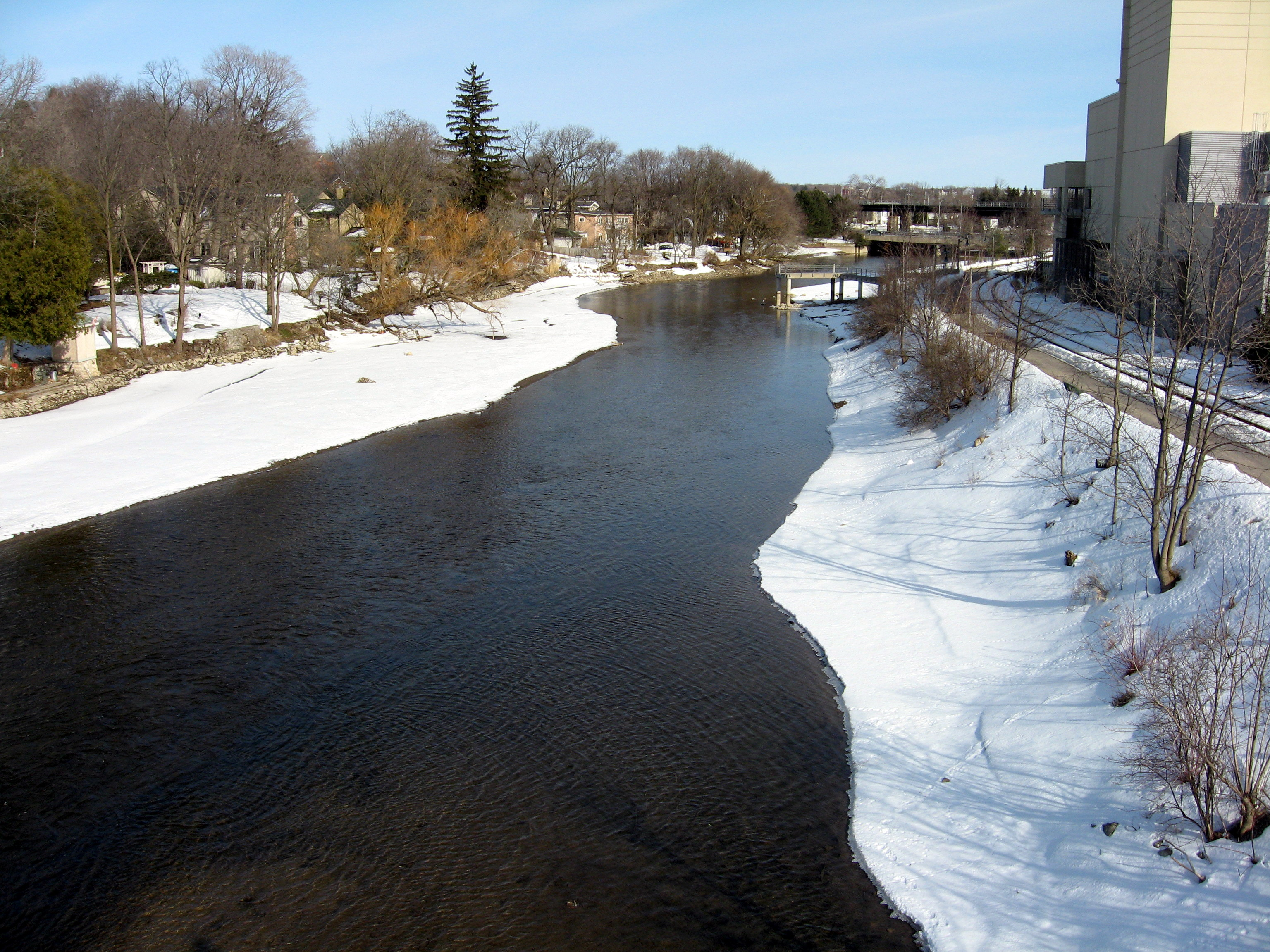 The Speed River in Guelph, Ontario, looking south.